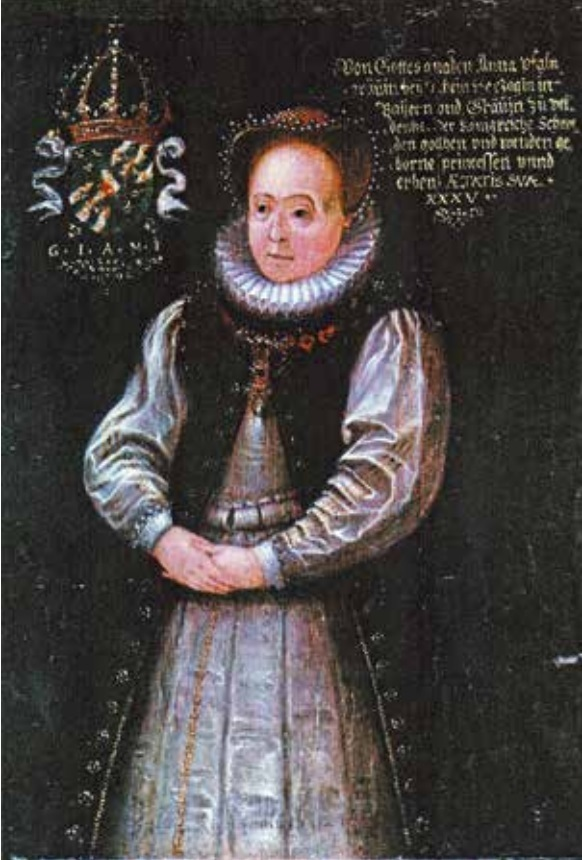 Assumed to be Princess Anna of Sweden and the Veldenz Palatinate (1545-1610) as per the insciption on the painting